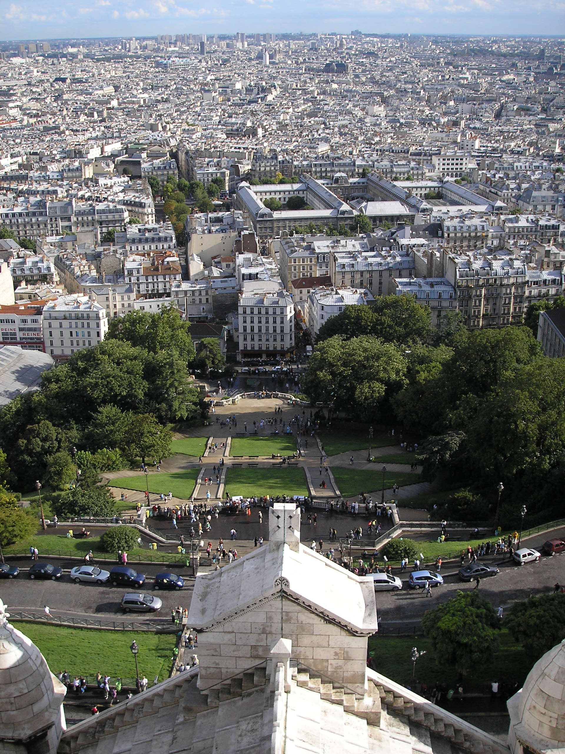 View of Paris from the top of the Basilique du Sacré-Cœur de Montmartre.